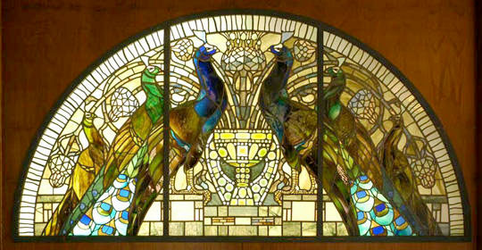 Peacocks on stained glass.